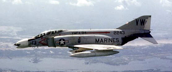 A McDonnell F-4B Phantom II (BuNo. 152243) of Marine fighter-bomber squadron VMFA-314 Black Knights returns to Chu Lai airbase, South Vietnam, in September 1968.